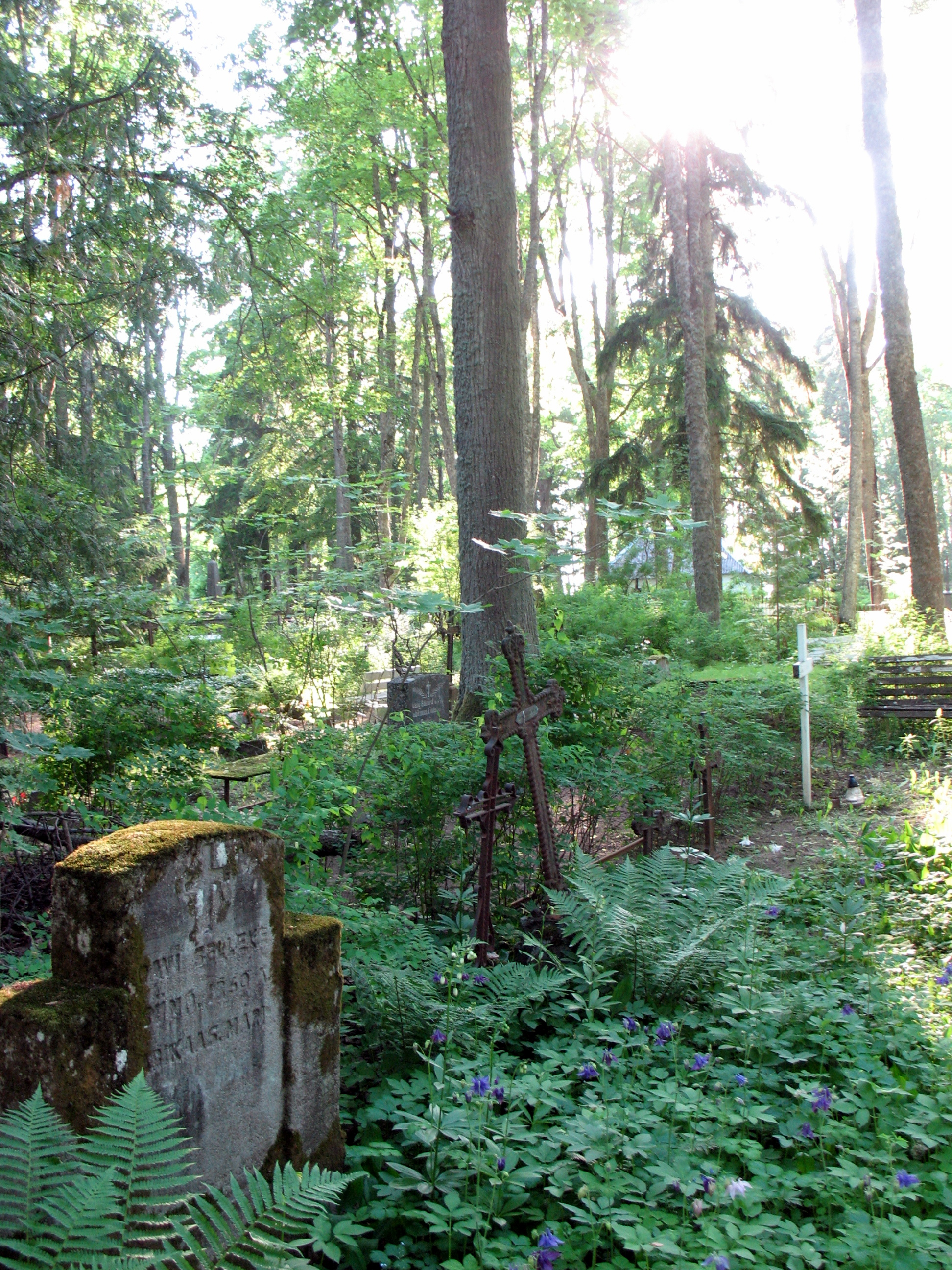 Tartu maakond, Puhja vald, Mäeselja küla